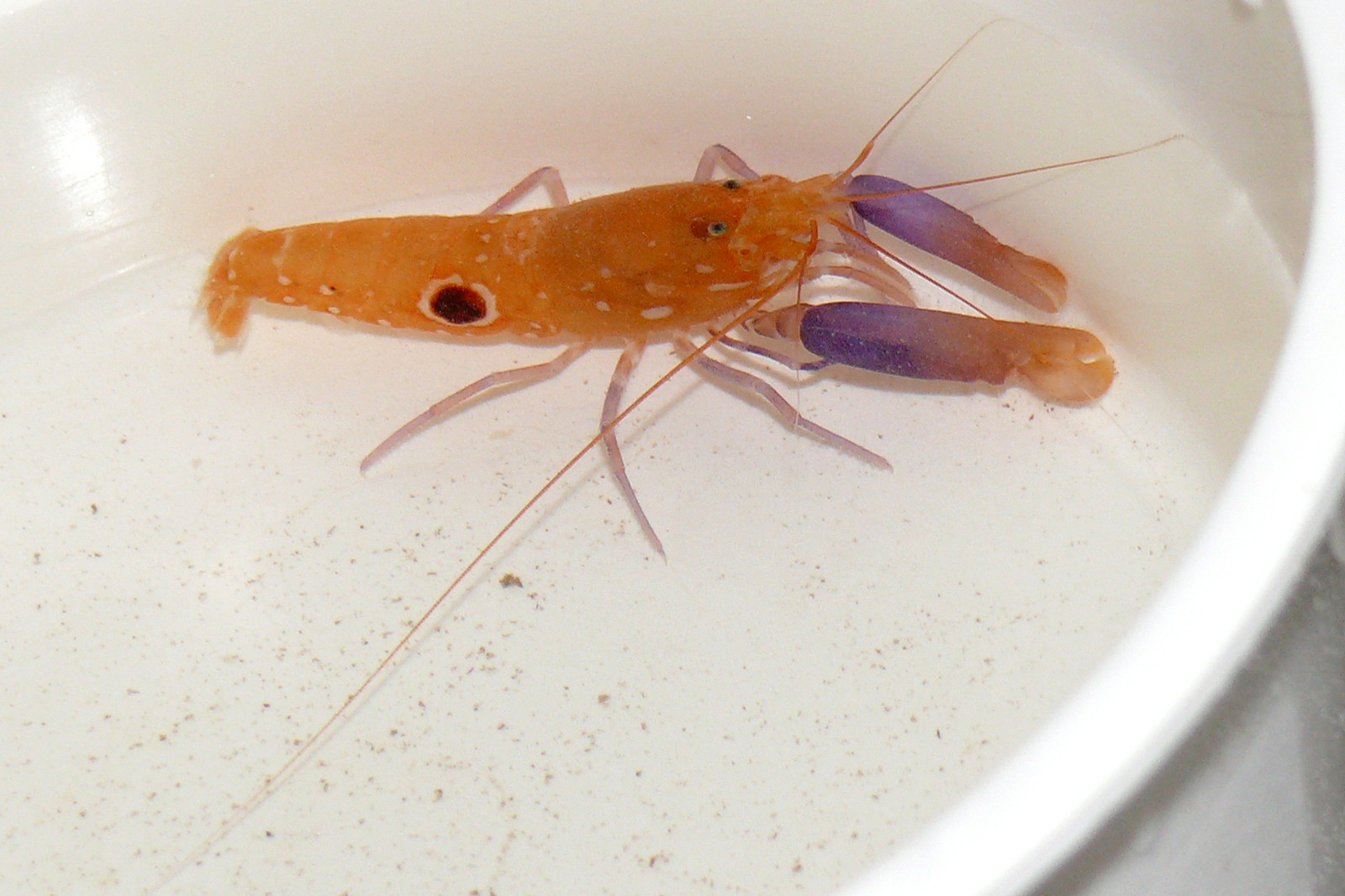 Alpheus soror